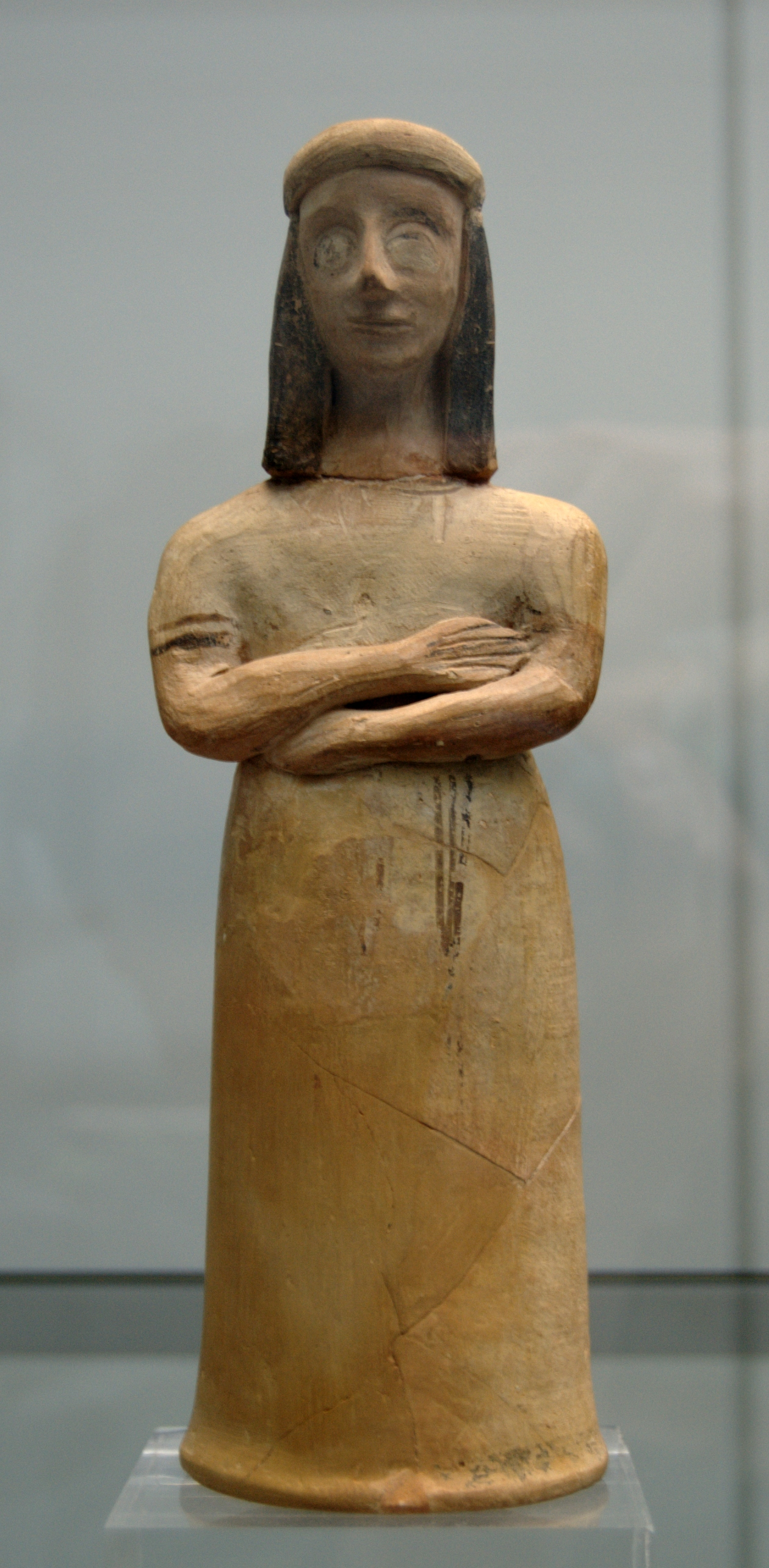 Woman with crown, probably a votive gift. Arms are crossed on the body as a sign of reverence and humility in front of the divinity. Crete, 630–610 BC.